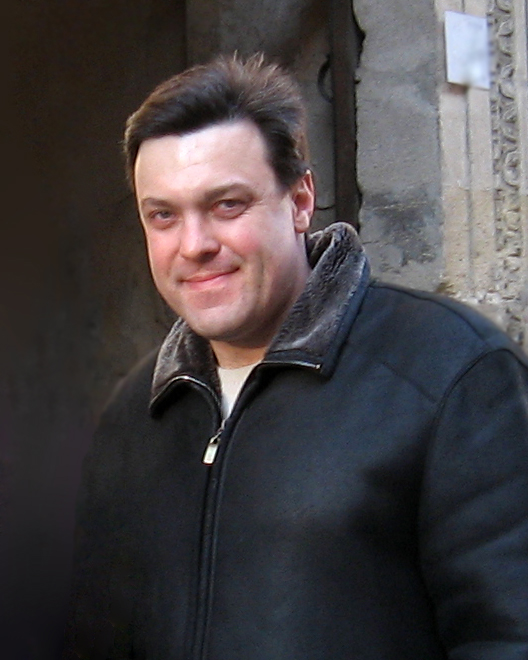 Oleh Tyahnybok, Ukrainian politician